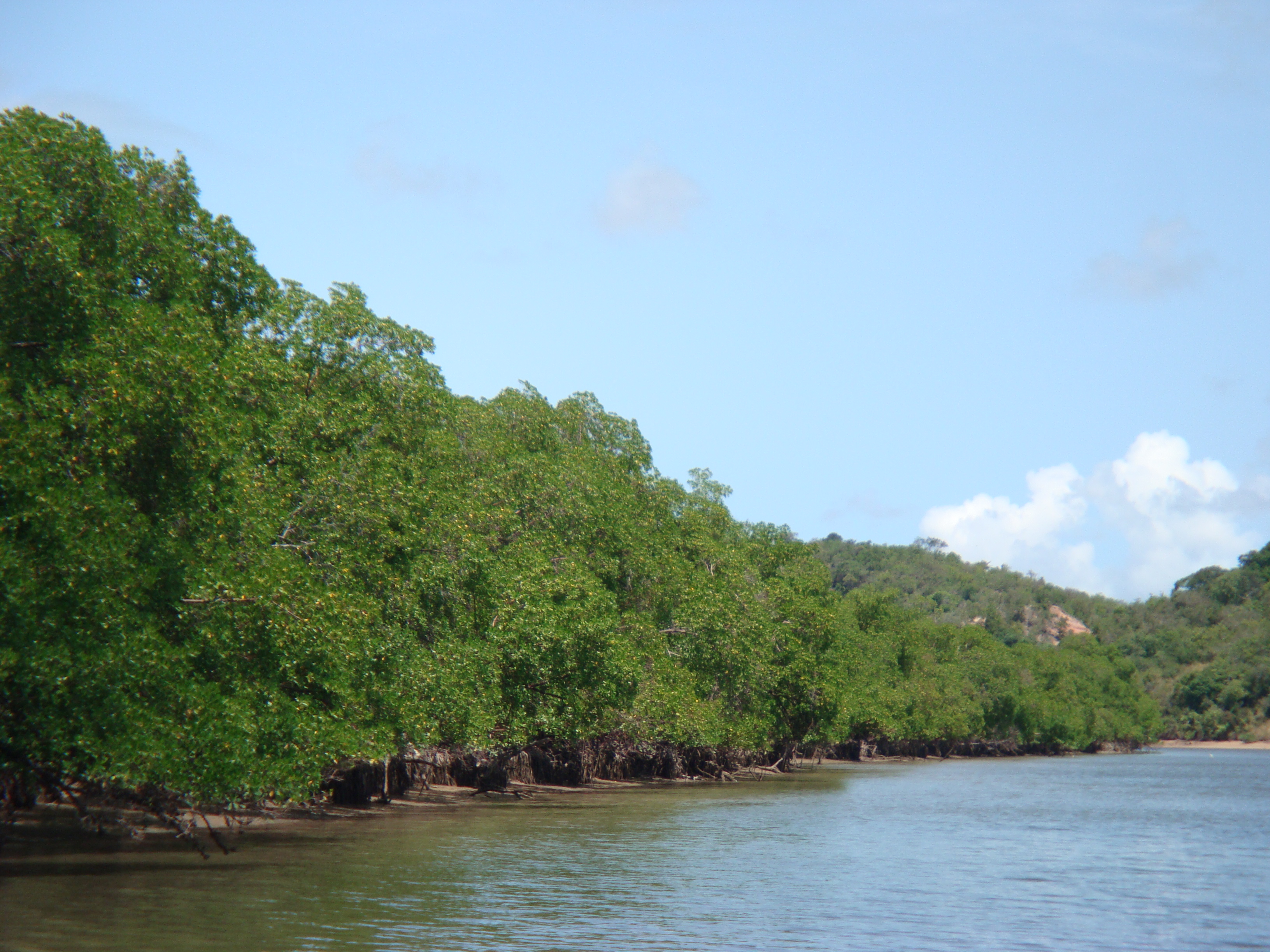 Looking for crabs